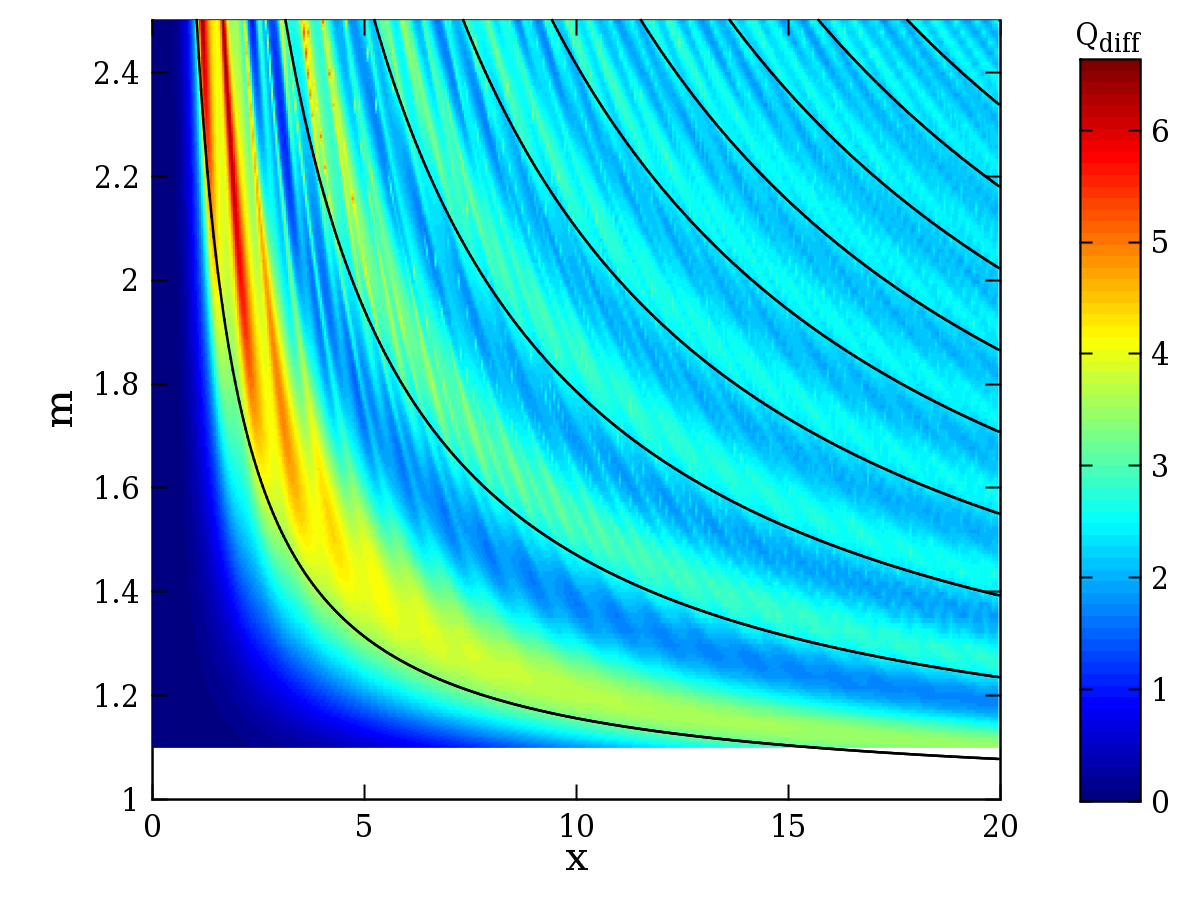 This false color image represents the scattering efficiency Q diff {\displaystyle Q_{\text{diff } as a function of size parameter x and the ratio m between the refractive index of the sphere (assumed to be real) and that of the surrounding medium. Q diff {\displaystyle Q_{\text{diff } is defined as Q diff = σ diff / ( π a 2 ) {\displaystyle Q_{\text{diff =\sigma _{\text{diff /(\pi a^{2})} where a is the radius of the sphere and σ diff {\displaystyle \sigma _{\text{diff } is the scattering cross section. The size parameter x is defined as x = 2 π N a / λ {\displaystyle x=2\pi \,N\,a/\lambda } , where N is the refractive index of the surrounding medium and λ is the wavelength in vacuum. The black lines are defined by 2 x ( m − 1 ) = ( 2 p + 1 ) π {\displaystyle 2x(m-1)=(2p+1)\pi } corresponding to destructive interferences between the ray passing through the center of the sphere and a ray passing outside the sphere. These results have been obtained by using the MiePlot program and compiled with Octave.